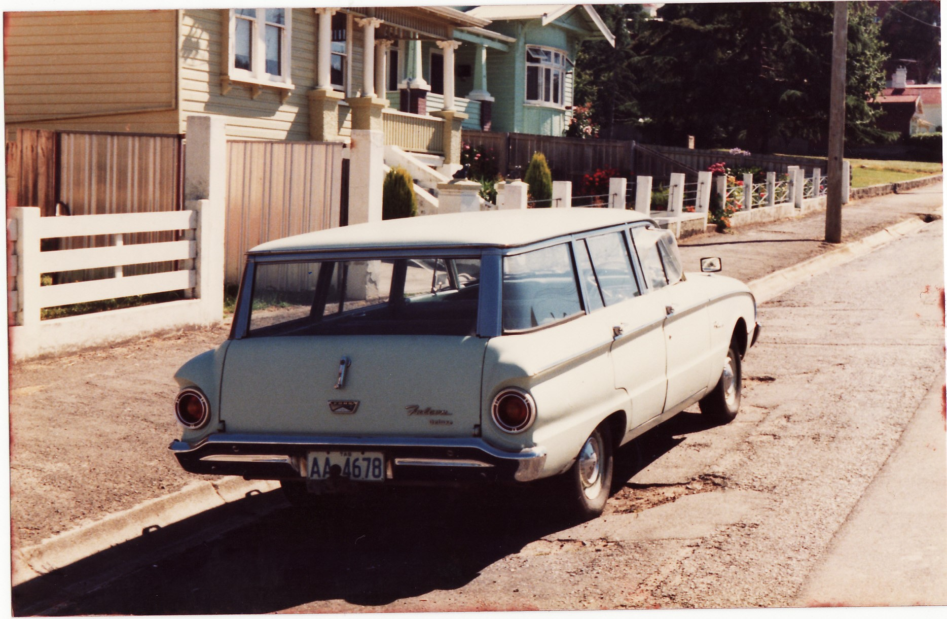 Ford Falcon XK Station Wagon c. 1960-62 (Australia)